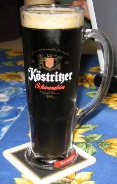 Köstritzer Schwarzbier. Taken in Thale, Germany in May of 2005. Photographed and consumed by John McStravick